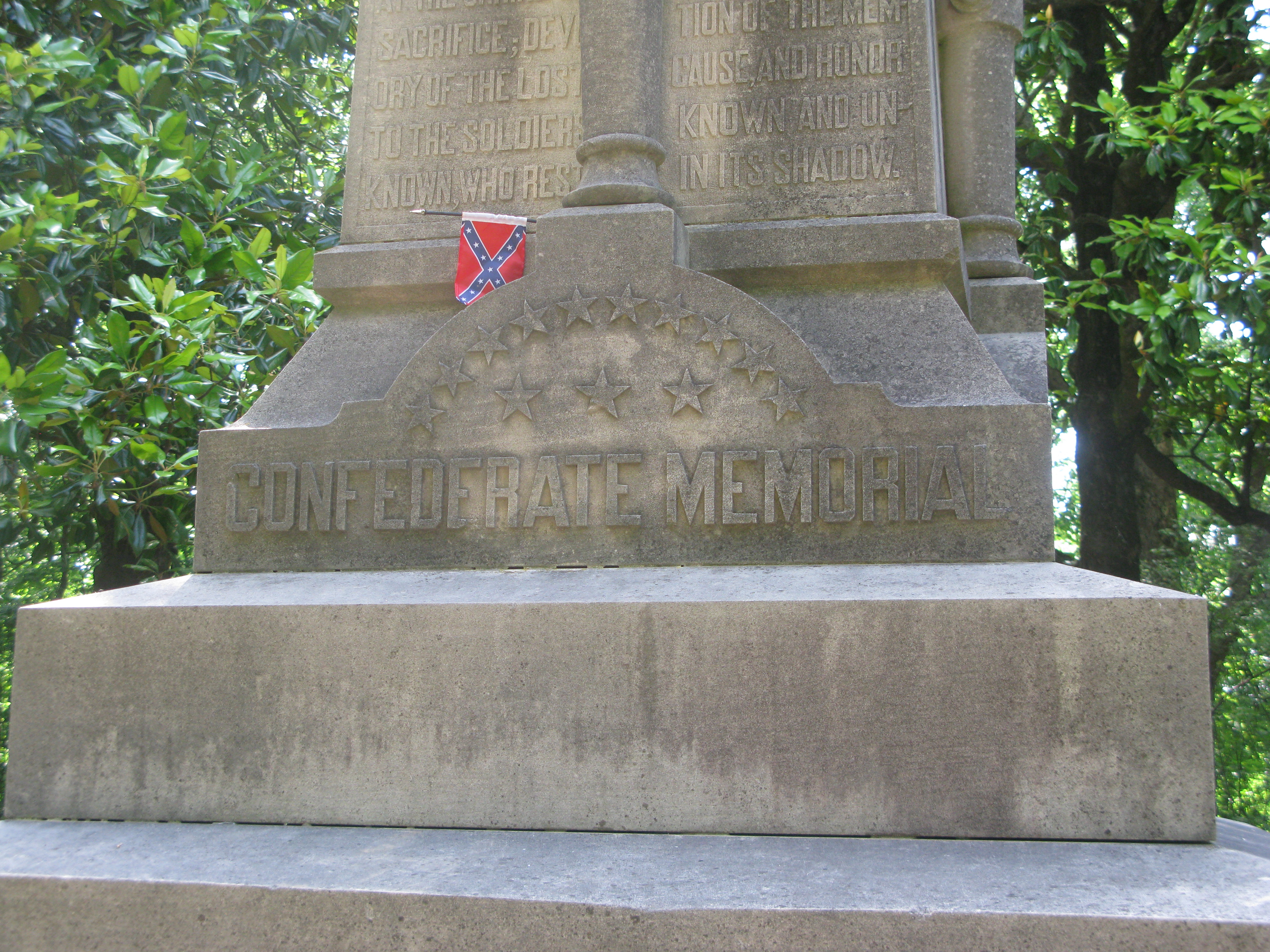 The marker for the Confederate Cemetery in Helena, Arkansas.